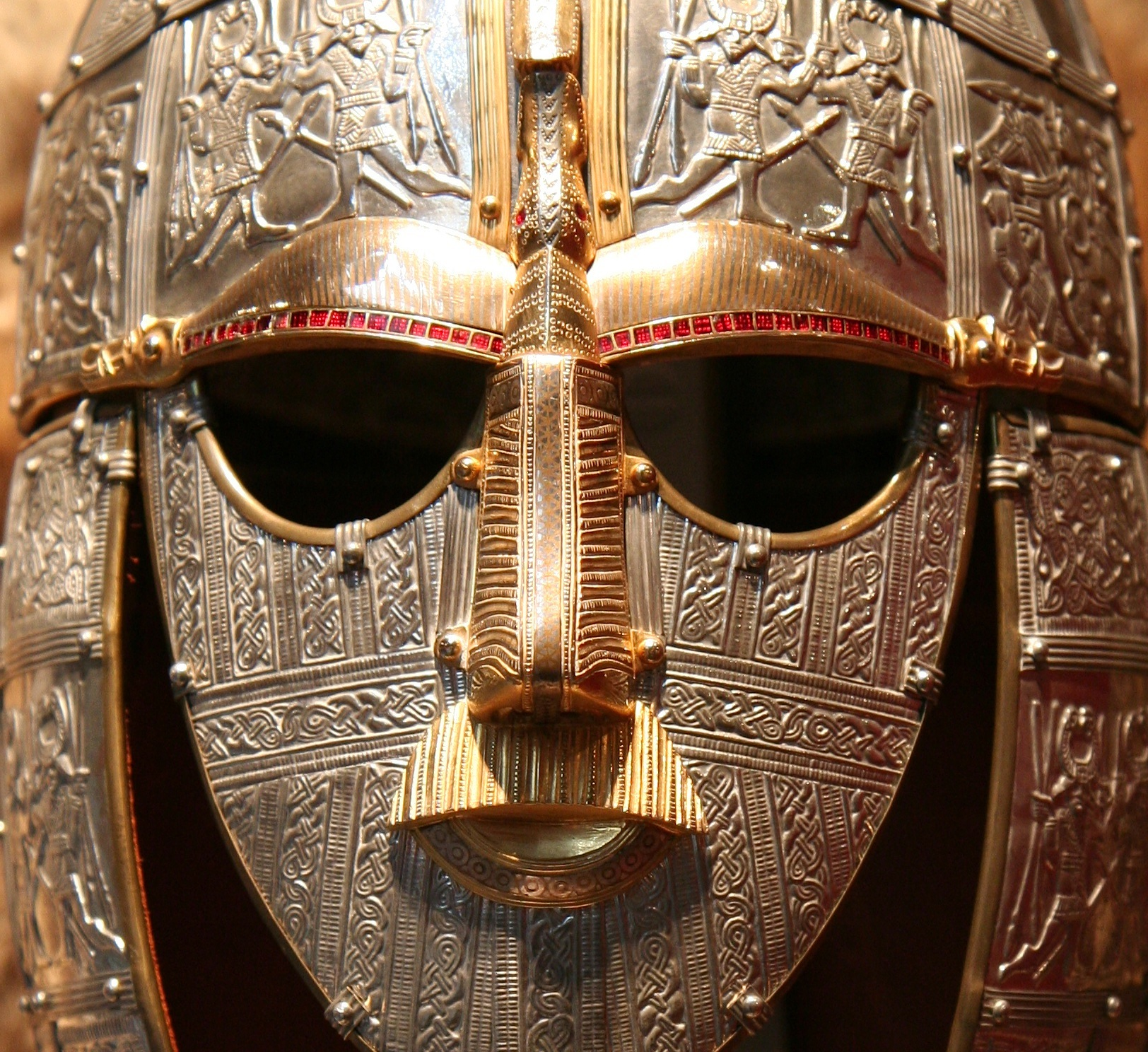 Replica of the helmet from the Sutton Hoo ship-burial 1, England. Face-mask.